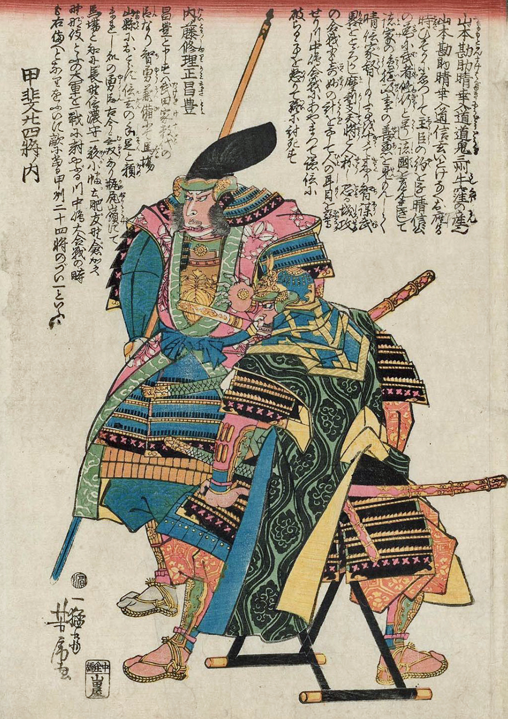 Yamamoto Kansuke Haruyuki Nyūdō Dōki and Naitō Shuri kami Masatoyo from the series Twenty-four Generals of Kai Province